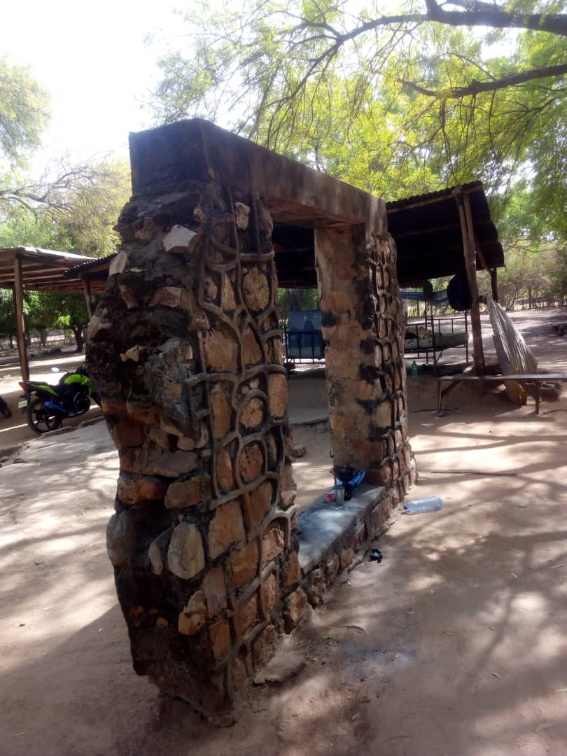 View of the entrance profile of the Ségbana prison Ségbana is a town located in the north-east of Benin, capital of the municipality of the same name, in the department of Alibori